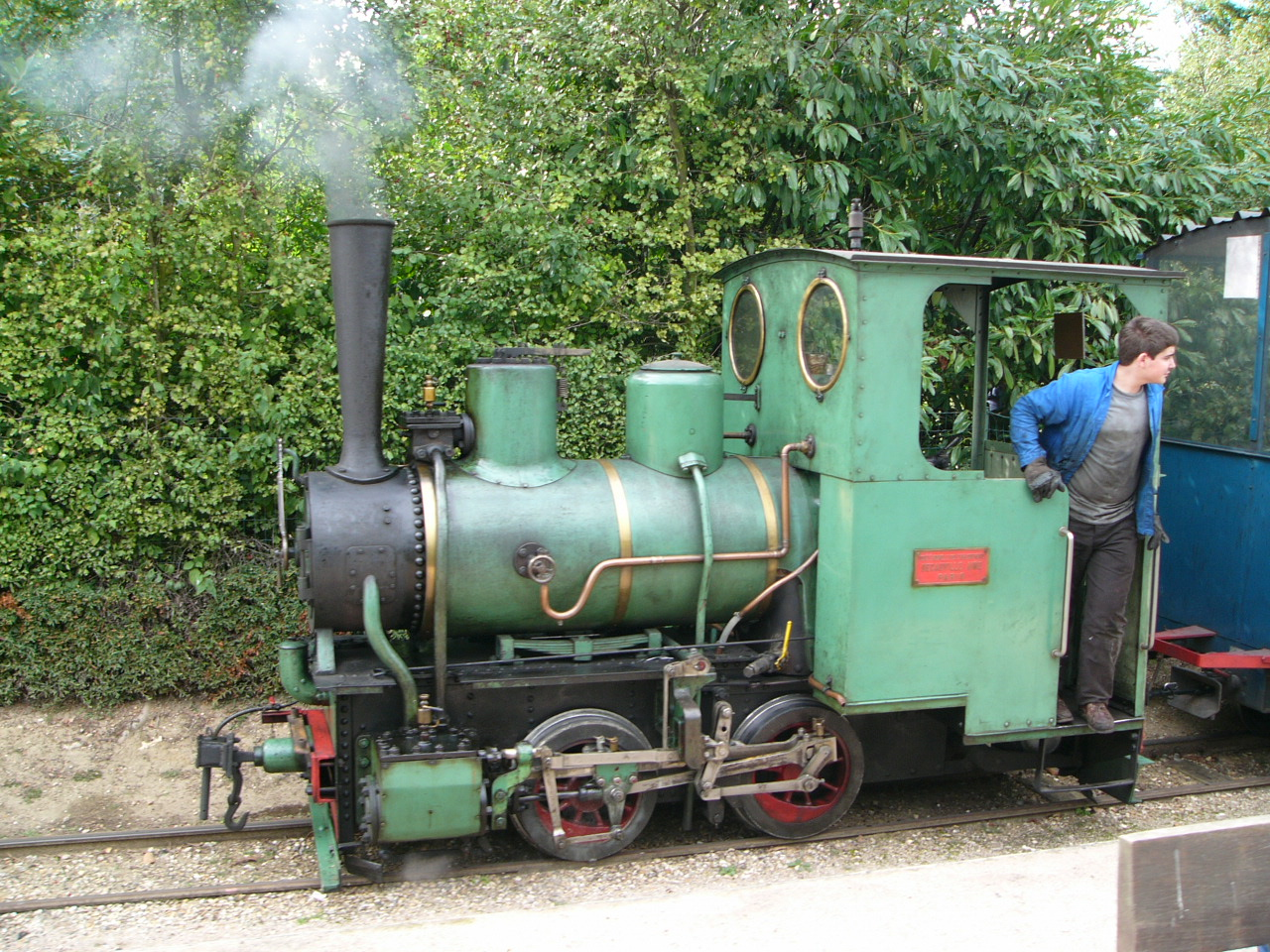 Narrow gauge 0-2-0 steam locomotive Tabamar manufactured by Decauville for the Chemin de fer des Chanteraines